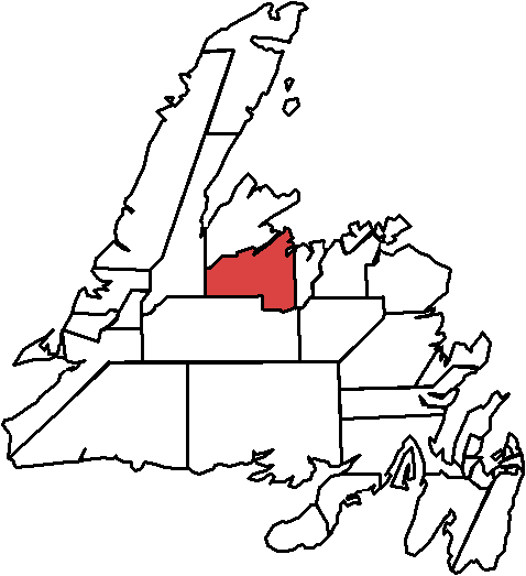 Maps based on images by Earl Warren, from the 2007 elections